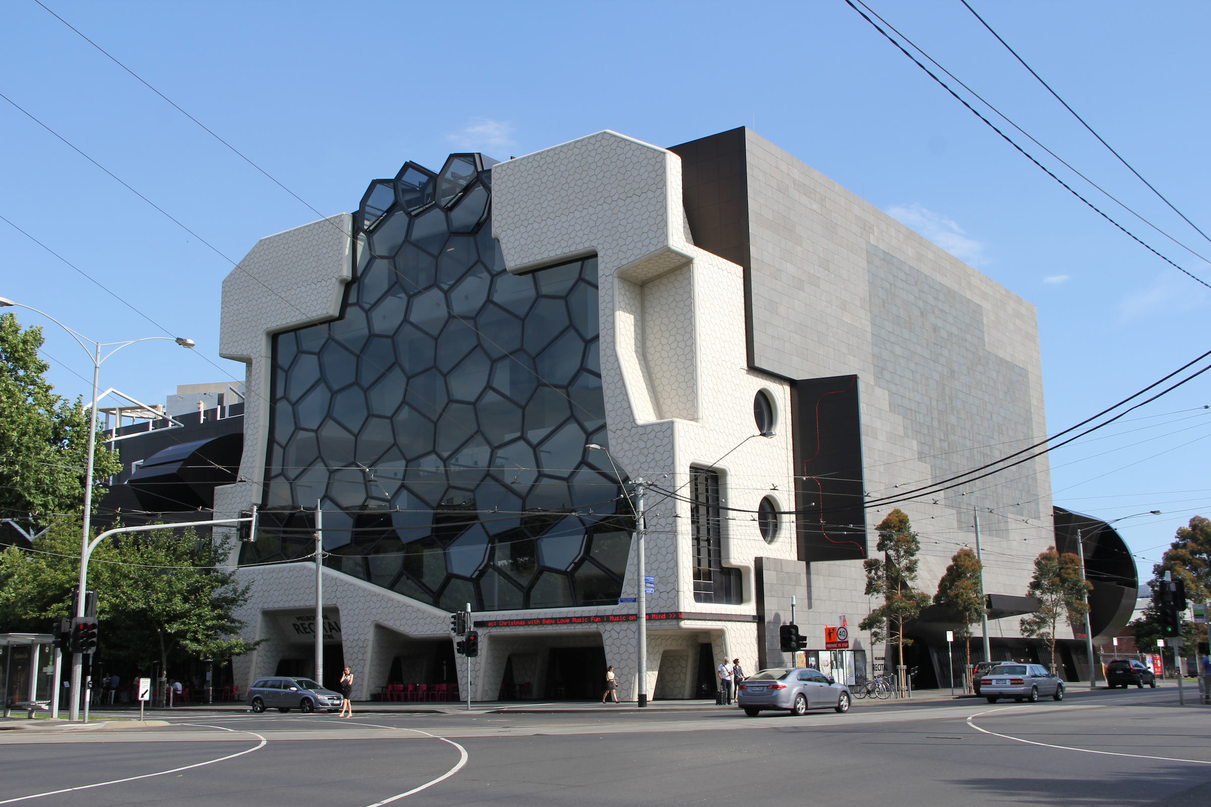 Melbourne Recital Center